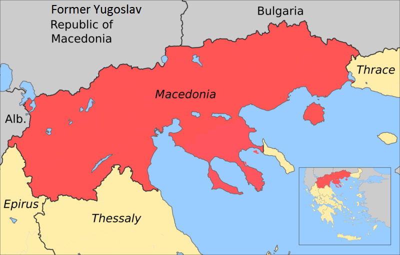 Map of the Greek region of Macedonia